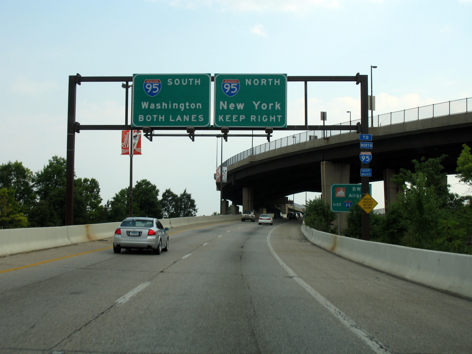 Interstate Highway Signs